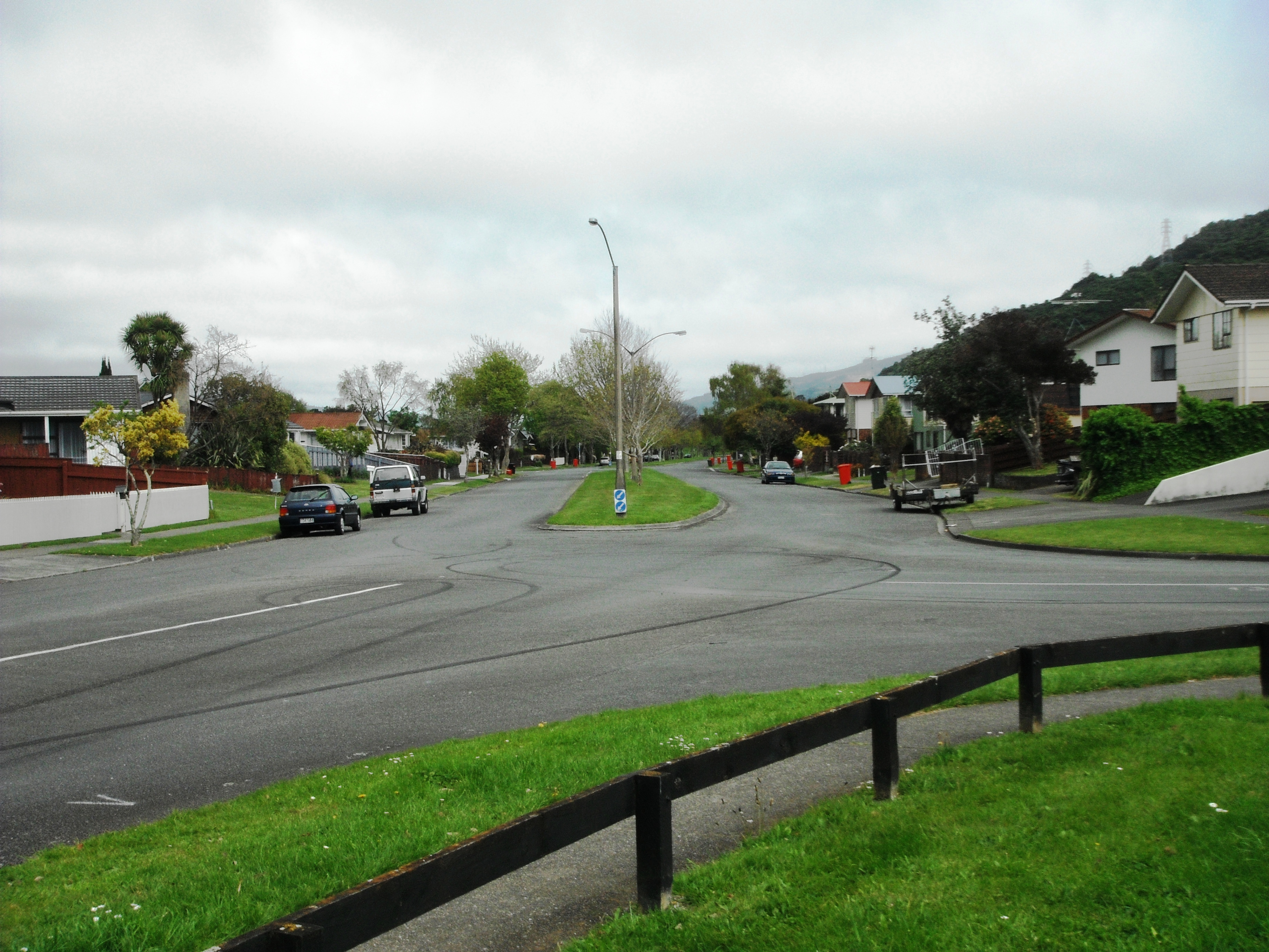 California Drive in Totara Park, Upper Hutt, New Zealand, taken from California Park. The Wellington fault line runs down the middle of the street, with the road built extra wide with a central reservation to keep houses back from the fault, hopefully limiting damage if the fault were to rupture